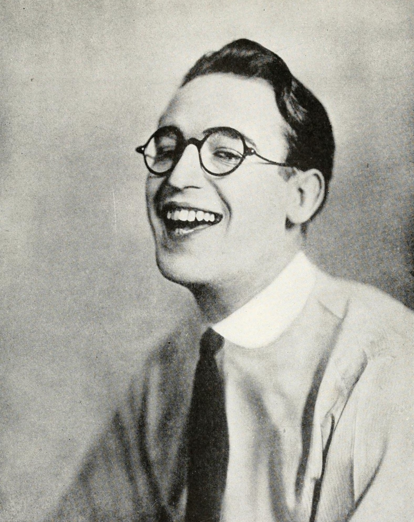 Harold Lloyd giving his famous grin in Who's Who on the Screen, 1920. Many advertisements during this time were based on this photograph.